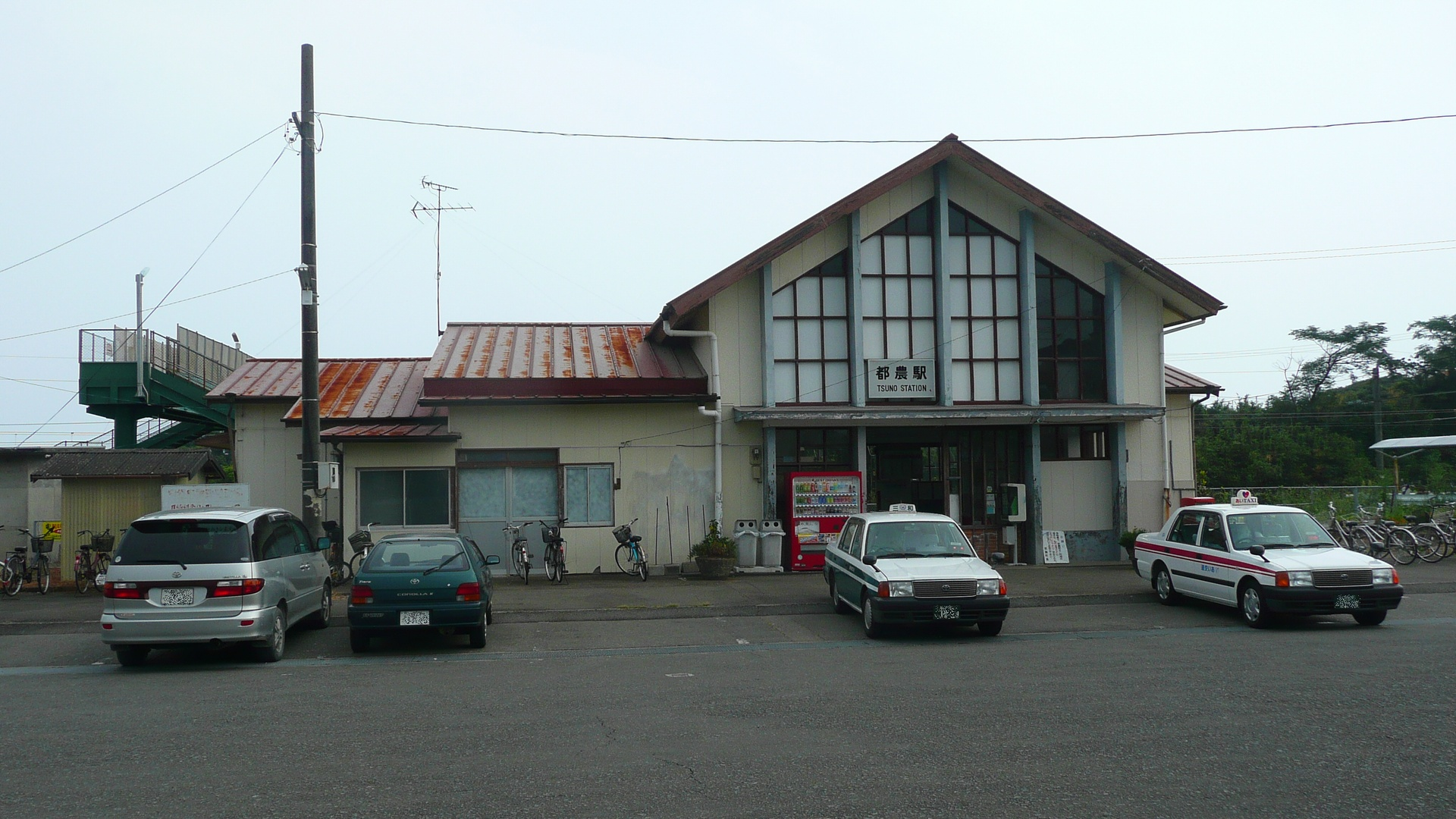 JR Kyushu Nippō Main Line Tsuno Station (Tsuno Town, Miyazaki, Japan)